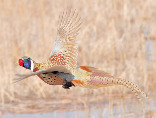 Ringnecked Pheasant - Flying